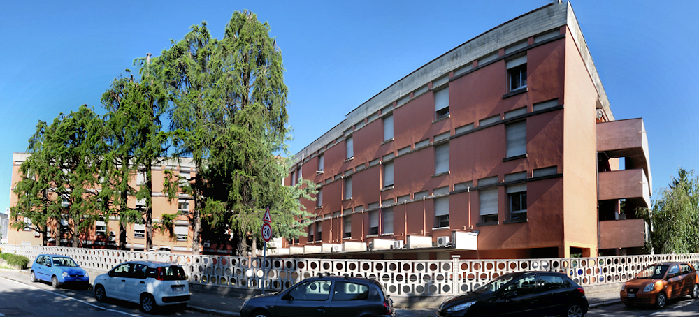 Rivolta d'Adda, Santa Marta hospital, the modern building